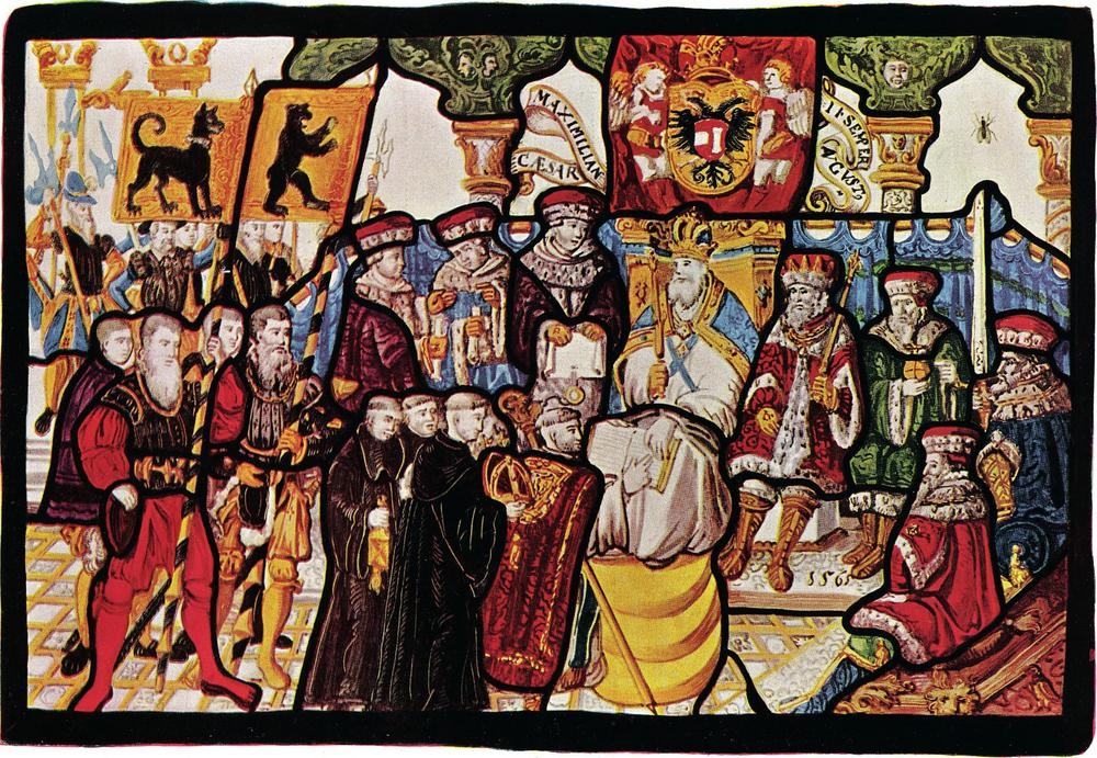 Holy Roman Emperor Maximilian II awards Abbot Otmar Kunz the Imperial Regalia